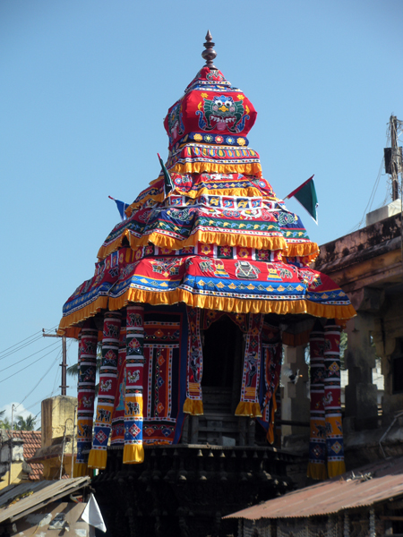 A temple car, Rameswaram